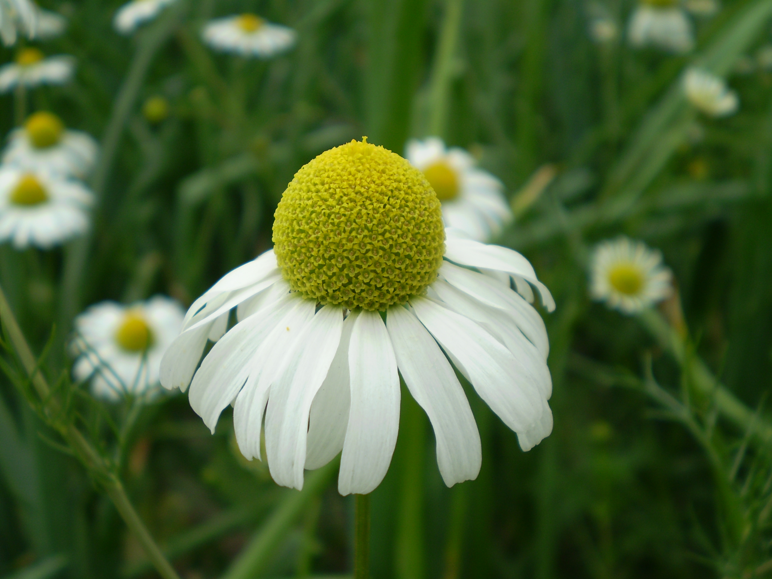 Chamomile, Matricaria recutita flowers.